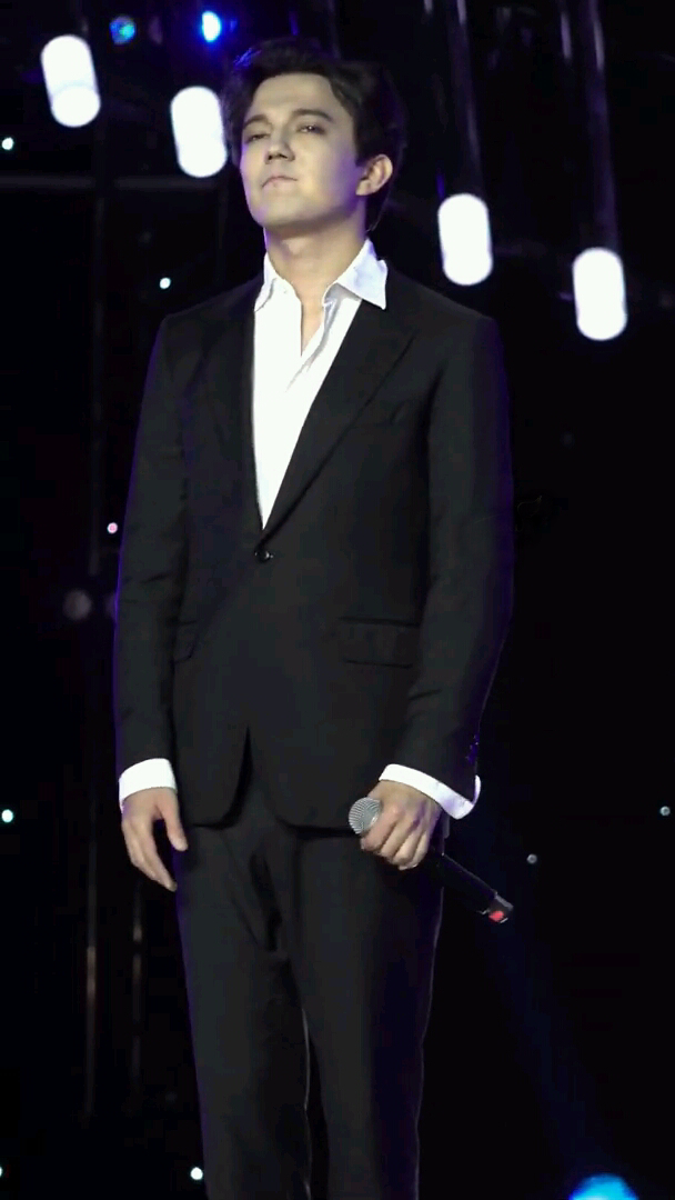 Dimash in Universal Show singing Autumn Strong.